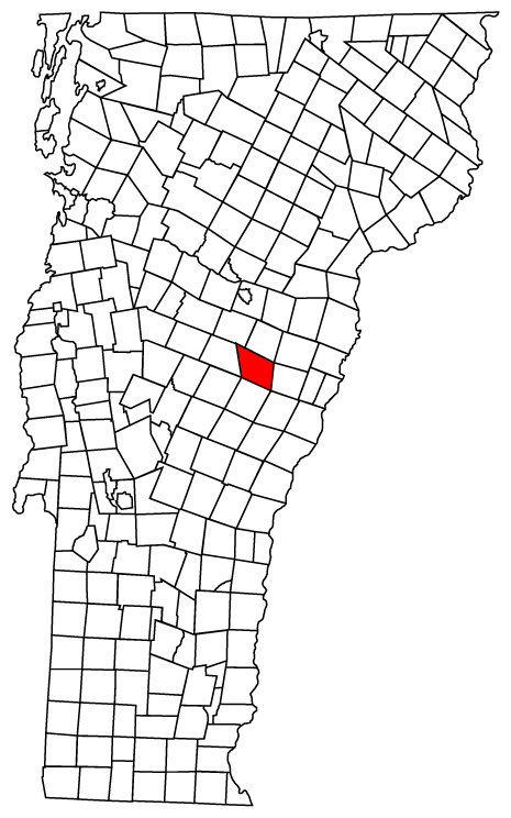 Description: Map of Vermont towns with Chelsea highlighted Source: Map created by Jared C. Benedict on 26 March 2004. Copyright: © Jared C. Benedict.